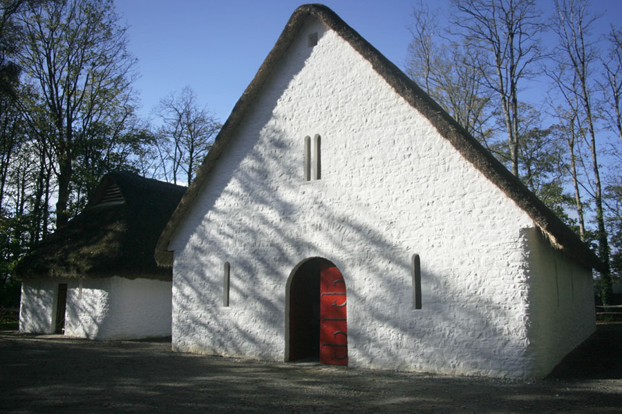 Llys Llewelyn, St Fagans National Museum of History, completed in October 2018. It is a recreation of the 13th century court of Llywelyn the Great.